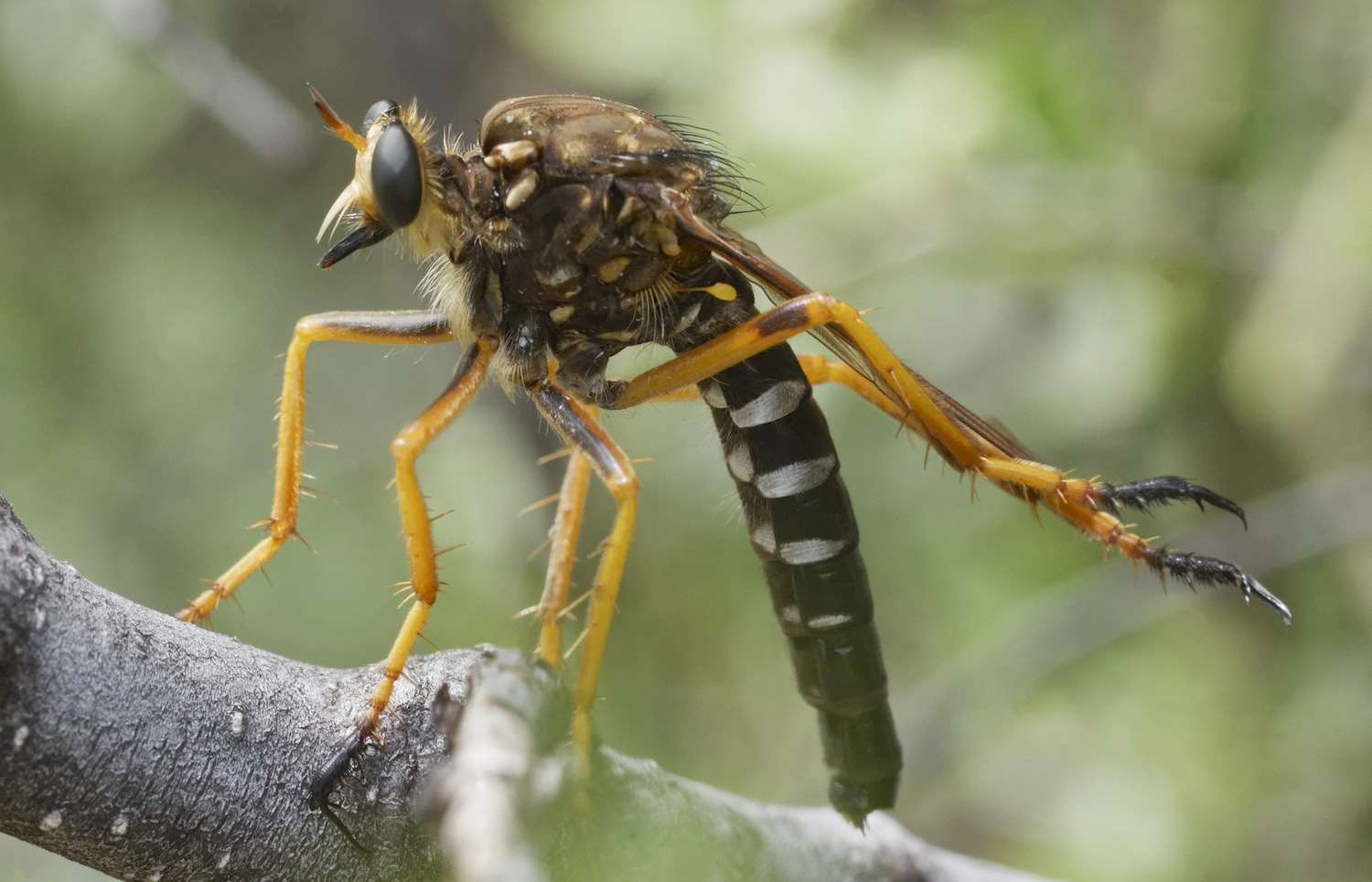 An unidentified extra large species of Caenarolia (a robber fly) from La Rioja province in Argentina. Note: the genus Caenarolia was reinstated by Papavero(2009) for species formerly classified as Allopogon.